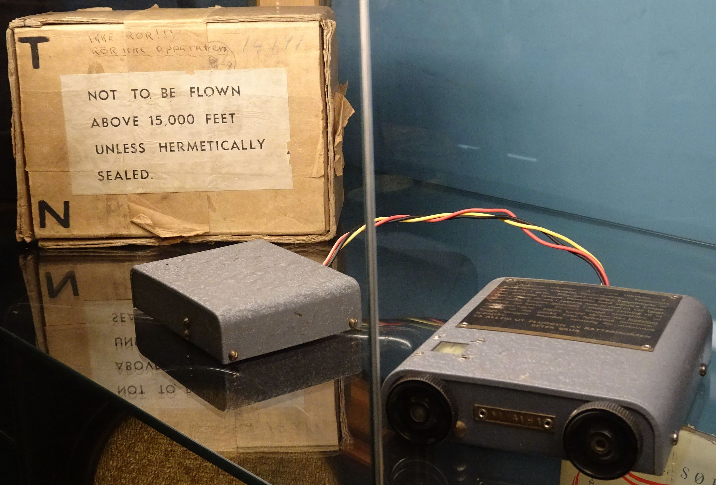 The shortwavereceiver "Sweetheart" was designed in England during WWII by the norwegian engineer Willy Simonsen. The receiver was used by reistance groups to receive messages from London.